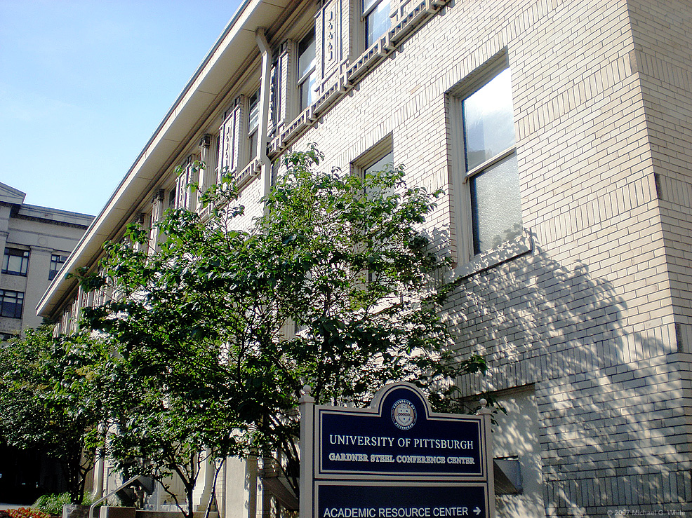 Gardner Steel Conference Center at the University of Pittsburgh. photo by Michael G White